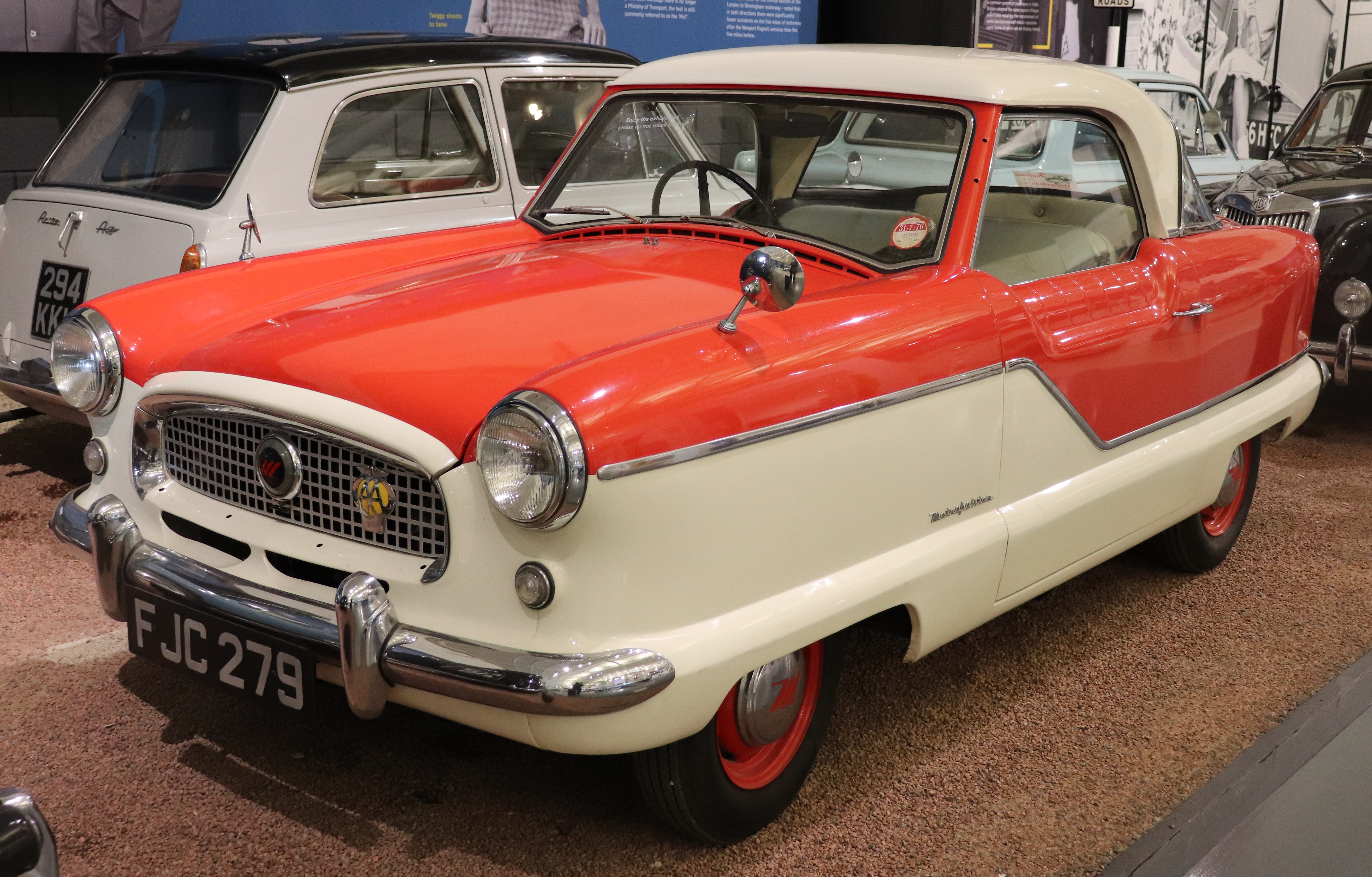 1958 Austin Metropolitan 1.5 Front Taken at the British Motor Museum, Gaydon